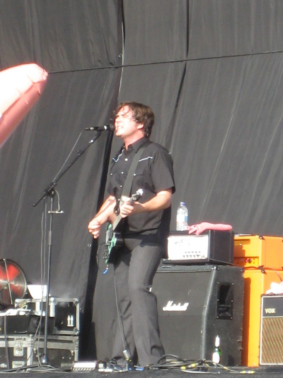 Jimmy Eat World on August 24, 2007 at the Reading Festival.